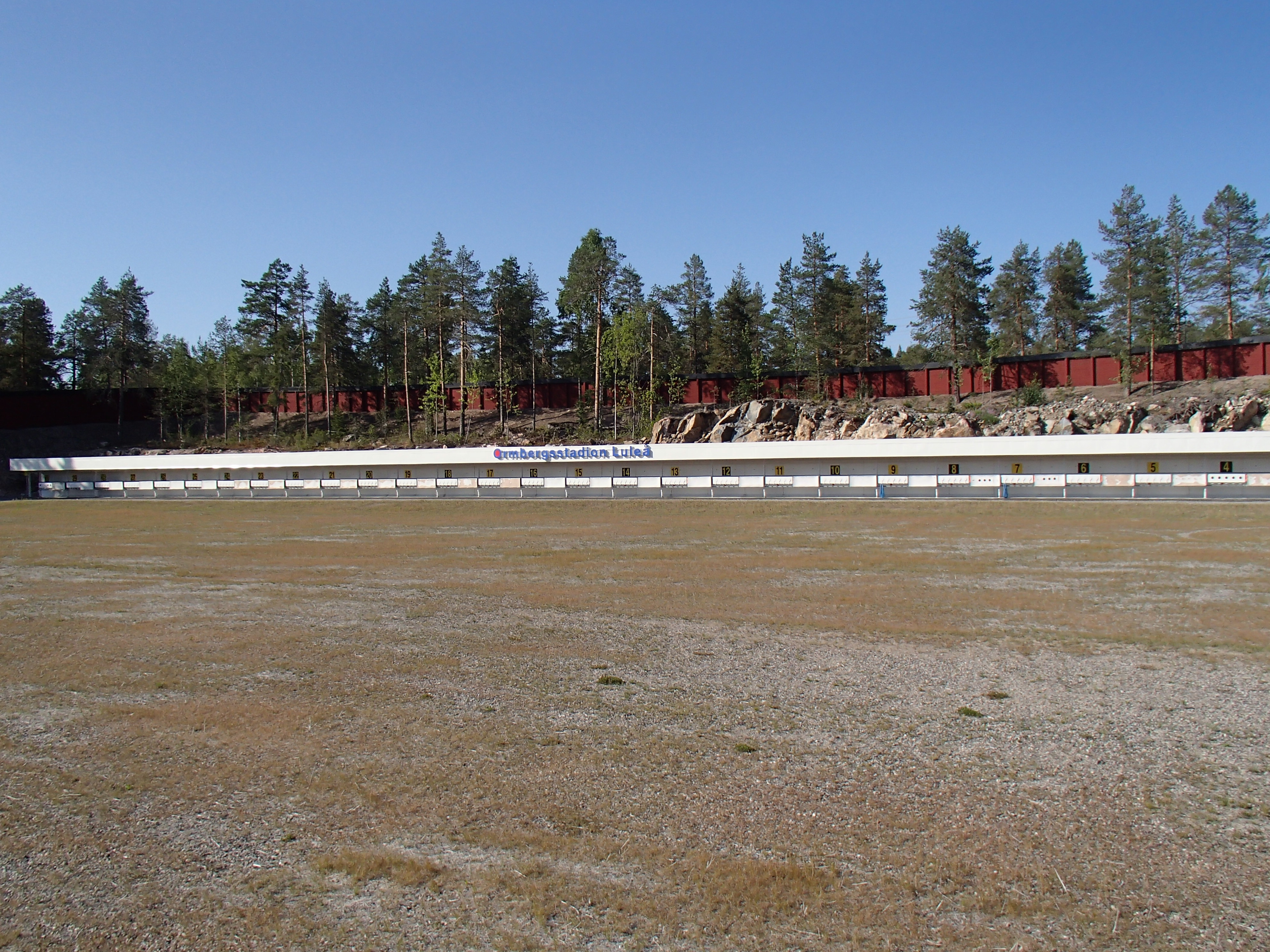 Skjutvallen på Ormbergsstadion